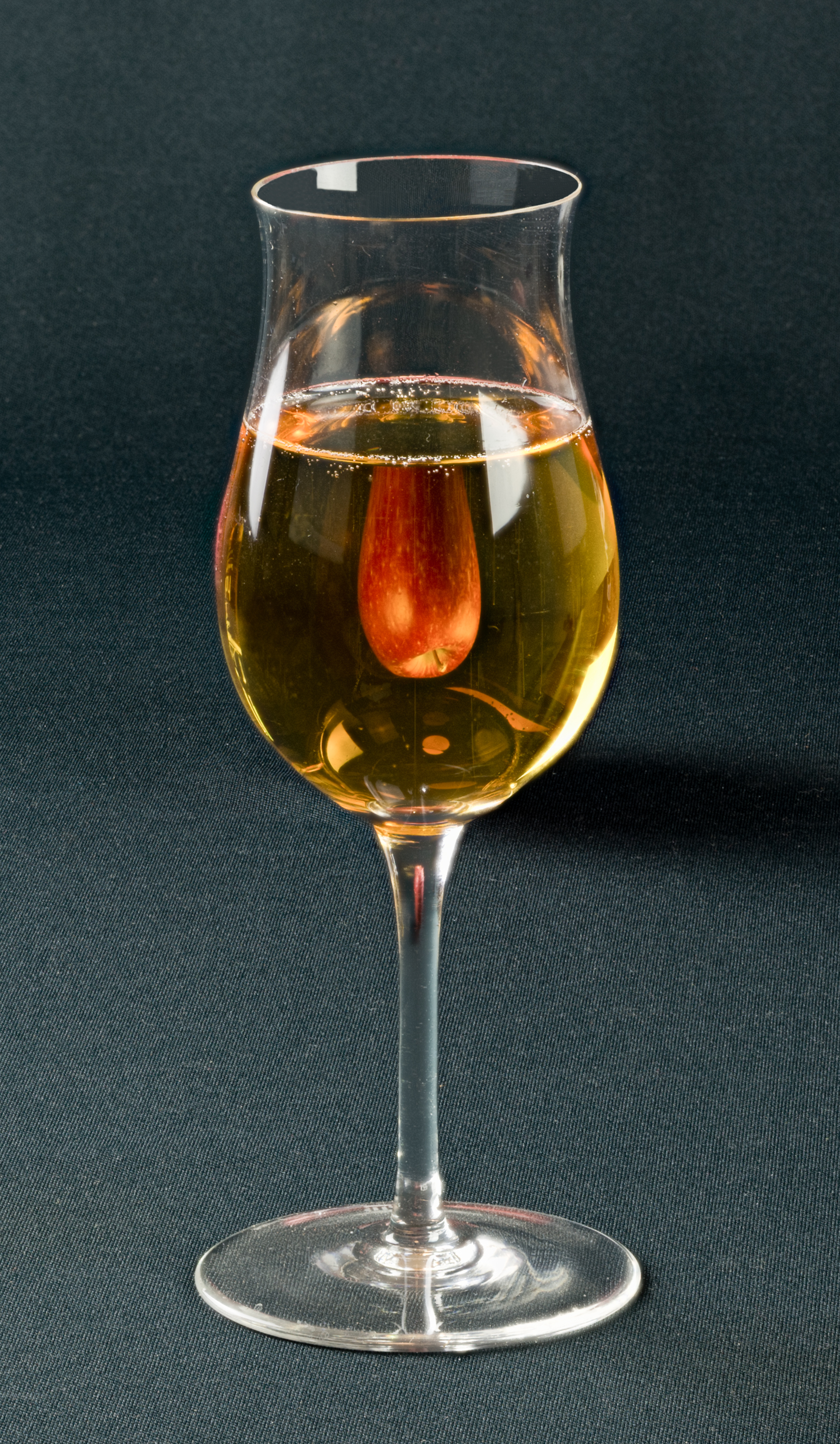 hoila-Cider from Zingerle, Bolzano, South Tyrol, bought at Laurino-Delikatessen, Karmelitermarket, Vienna. Glass: V.S.O.P. Cognac-glass, Sommeliers-series 400/71 (Height 165 mm, Content 160 ml) by Riedel, Austria